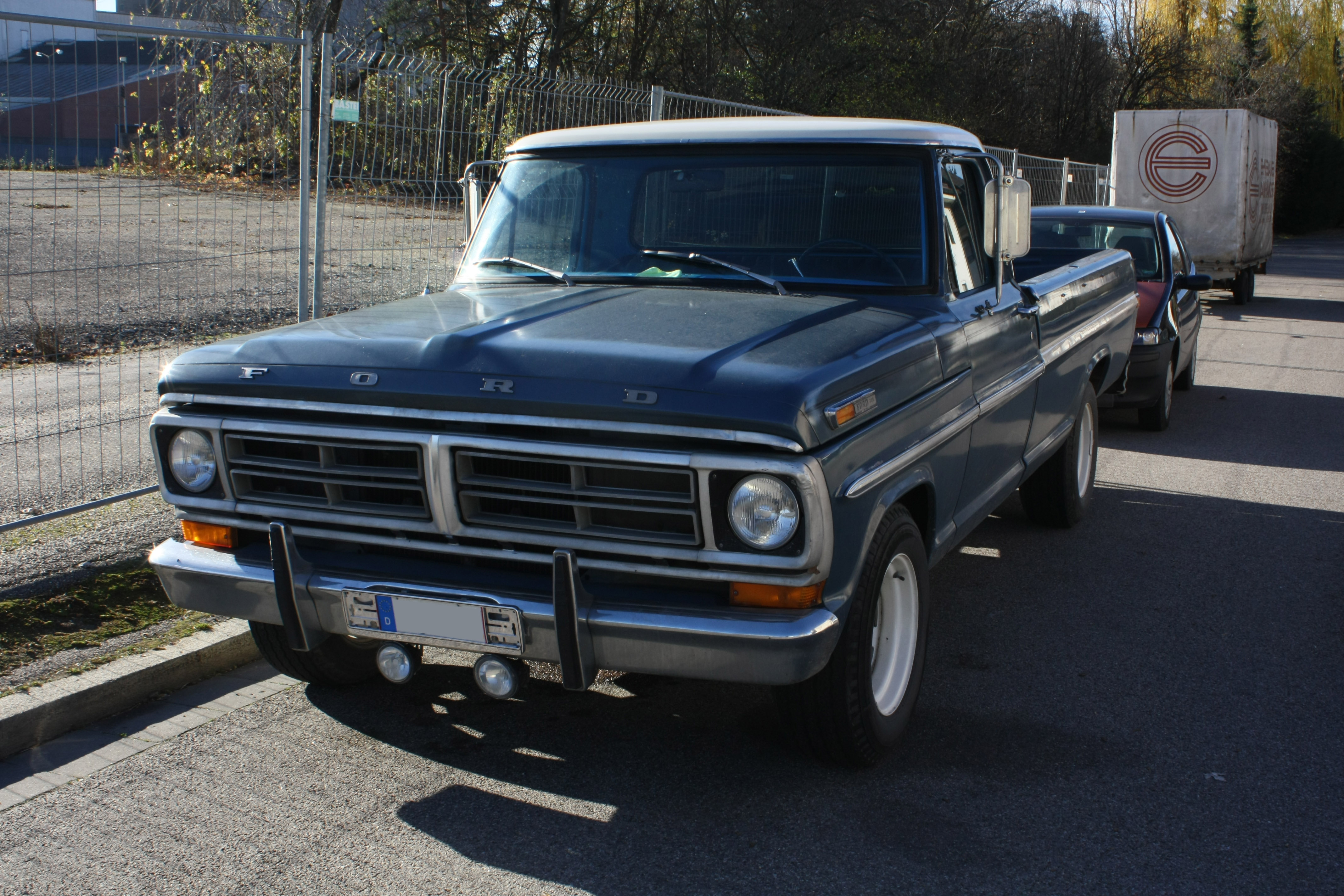 1972 Ford F-100